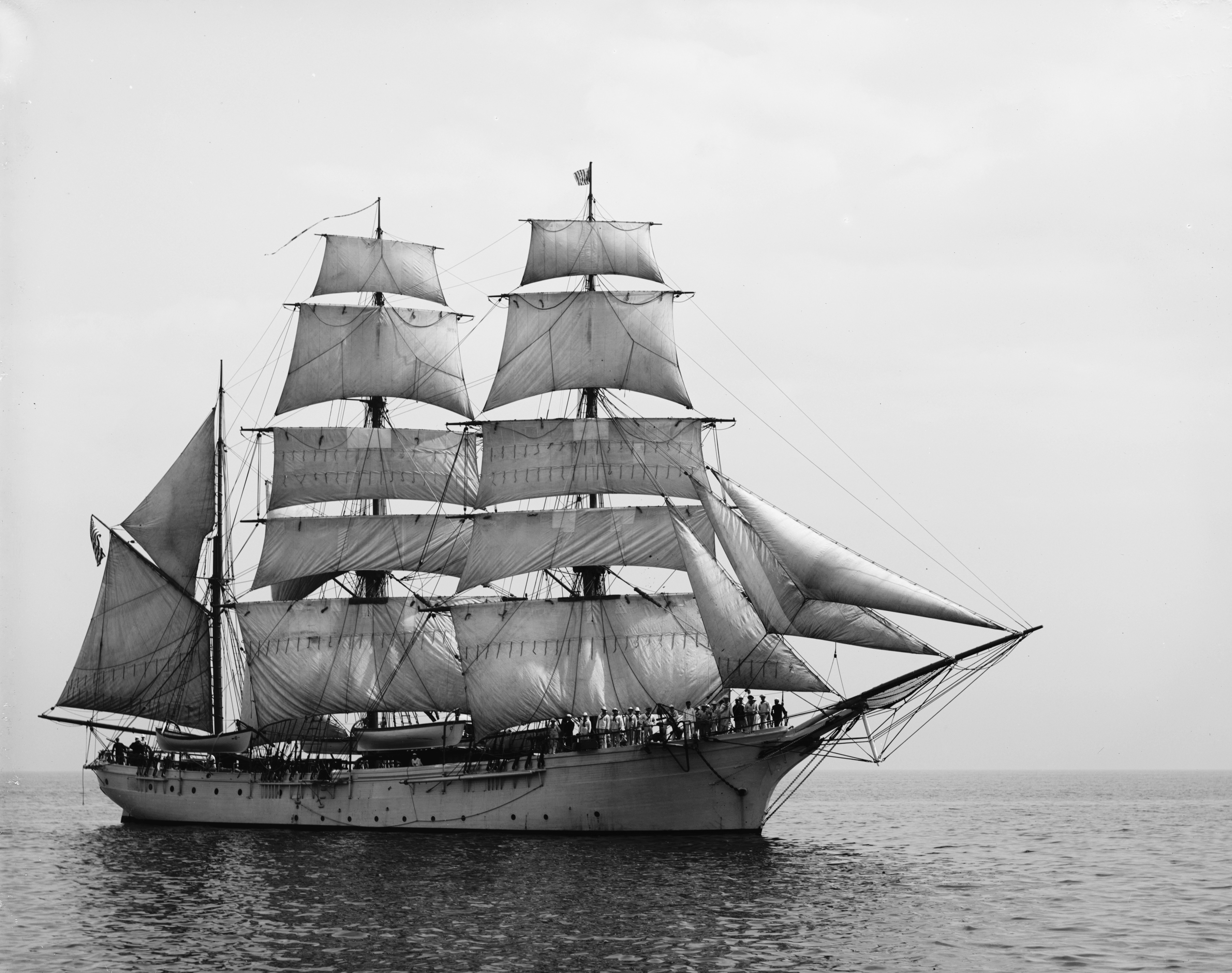 Unidentified sailing ship.Reproduction Number: LC-D41-114